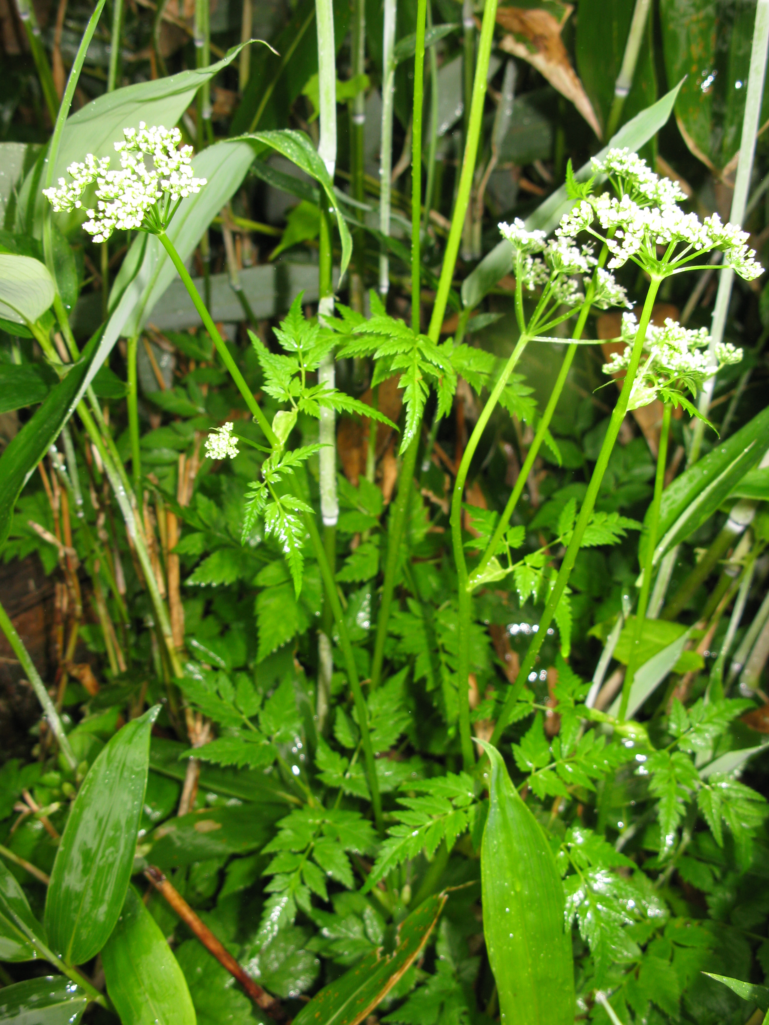 Aegopodium alpestre, Oze, Gunma pref., Japan